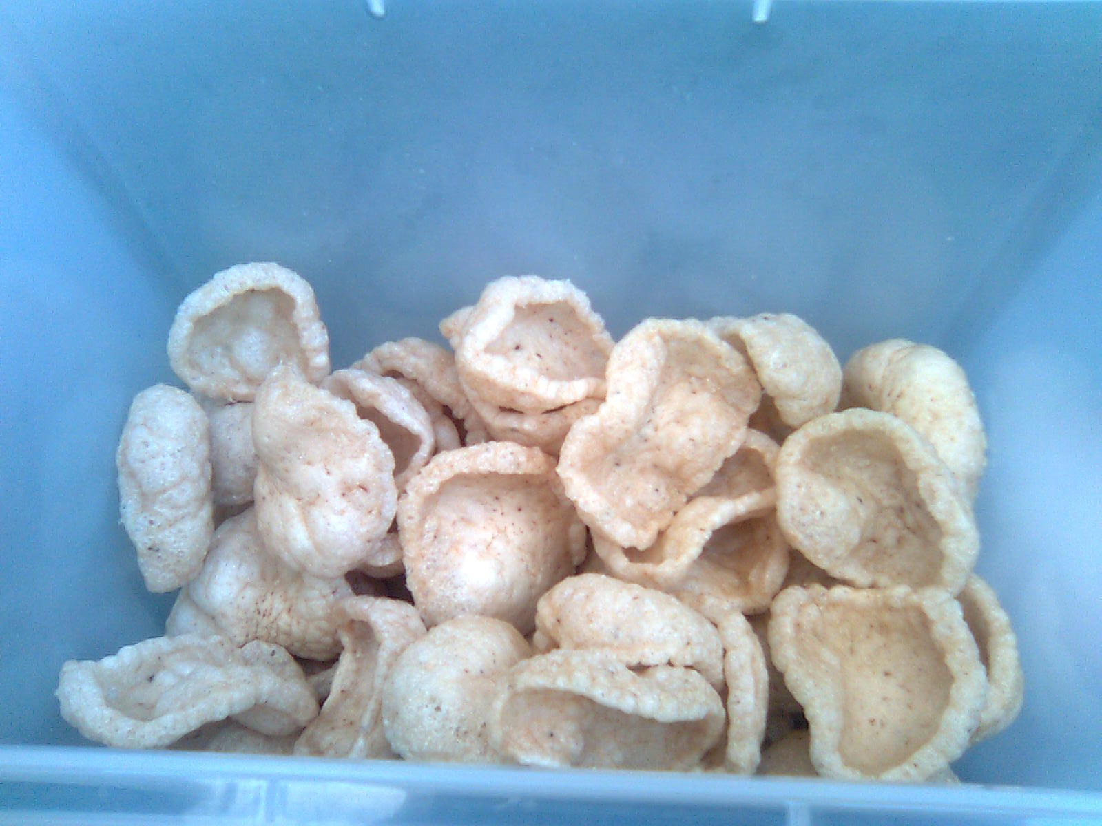 Kempelang snack from Bangka